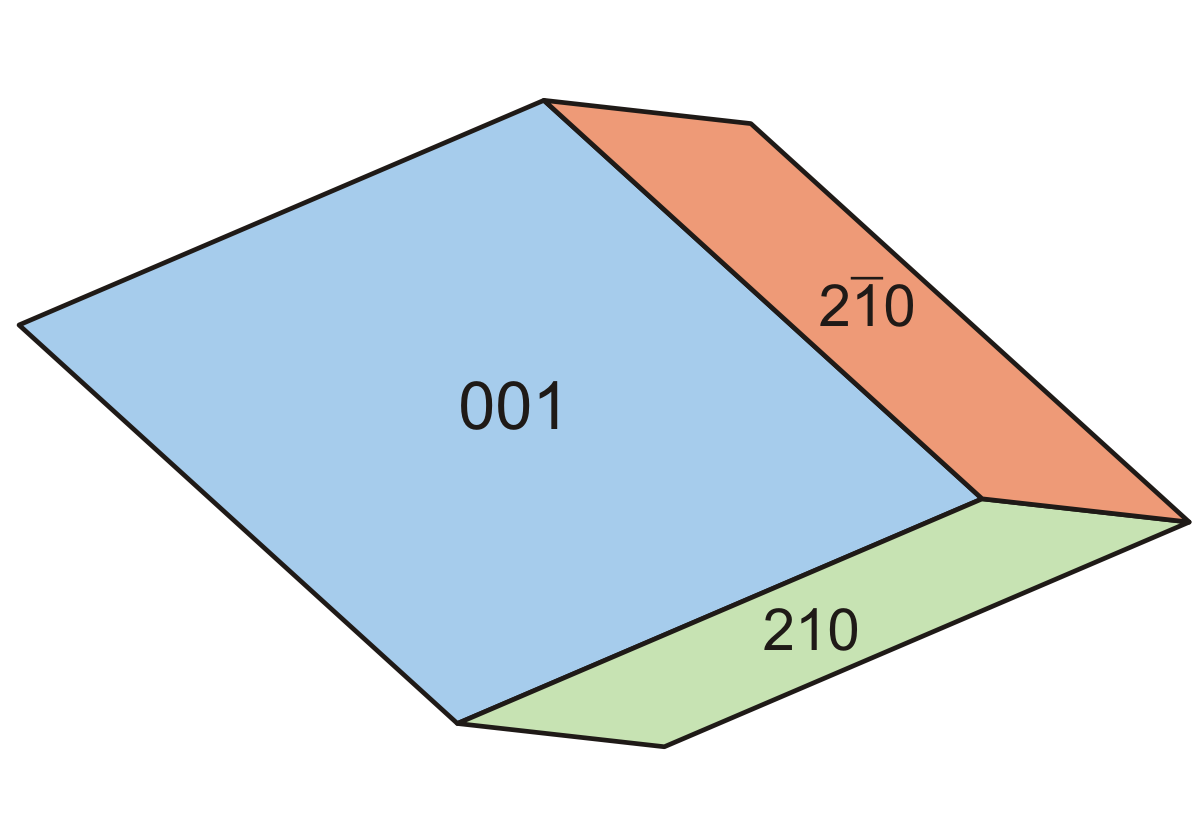 drawing of a rappoldite crystal with crystal forms {210}, {2-10} and {001}; reference: U. Baumgärtl in